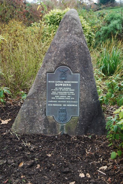 Dowding Memorial, Calverley Gardens A memorial stone to Sir Hugh Dowding, Chief Air Marshal during WWII, who died in Tunbridge Wells.